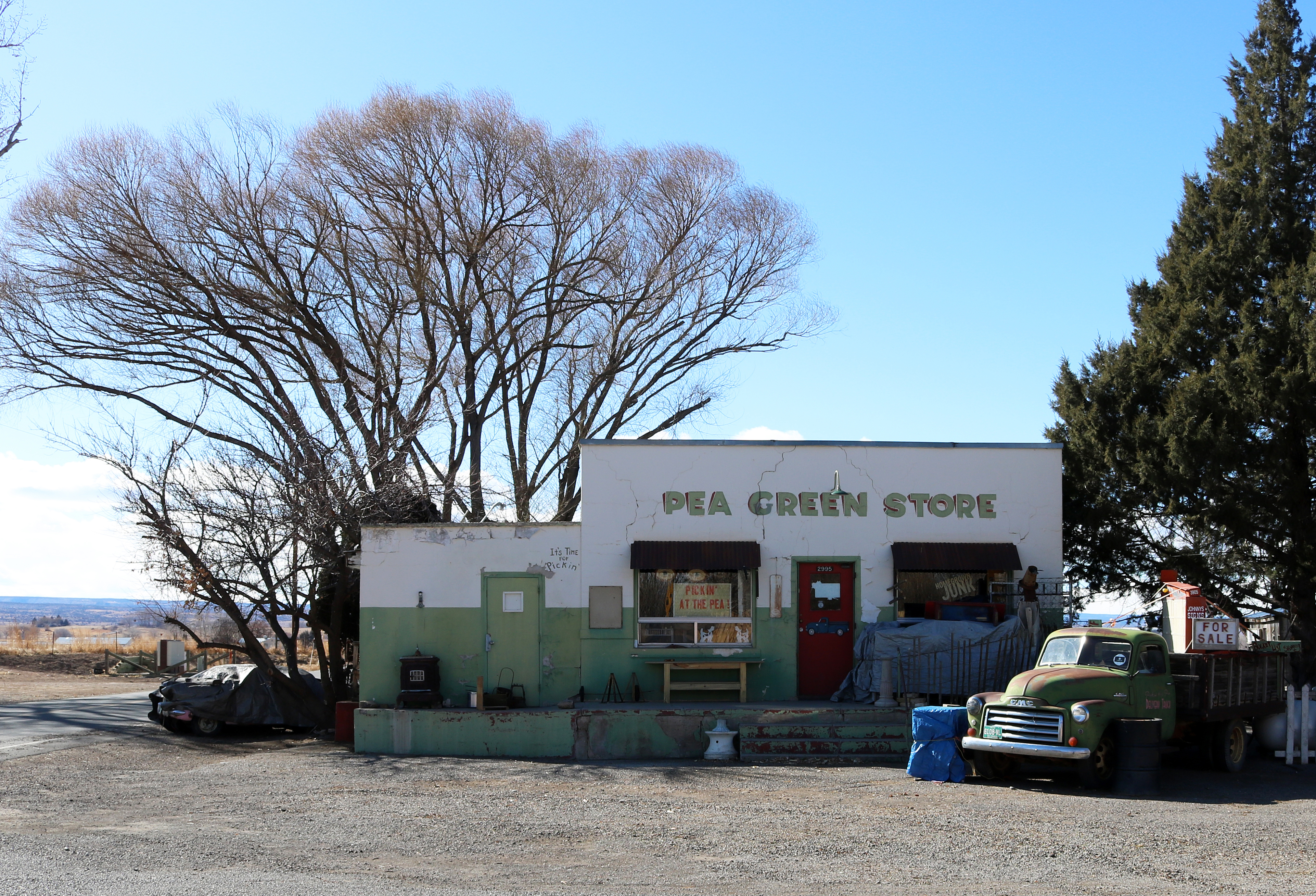 The Pea Green Store, now closed, located at Pea Green Corner in Montrose County, Colorado.